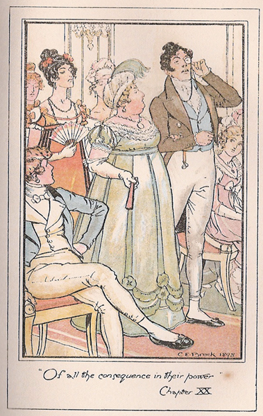 Persuasion (Jane Austen's last Novel), Ch.20. All that remained procced into the concert room : and be of all the consequence in their power...and disturb as many people as they could.